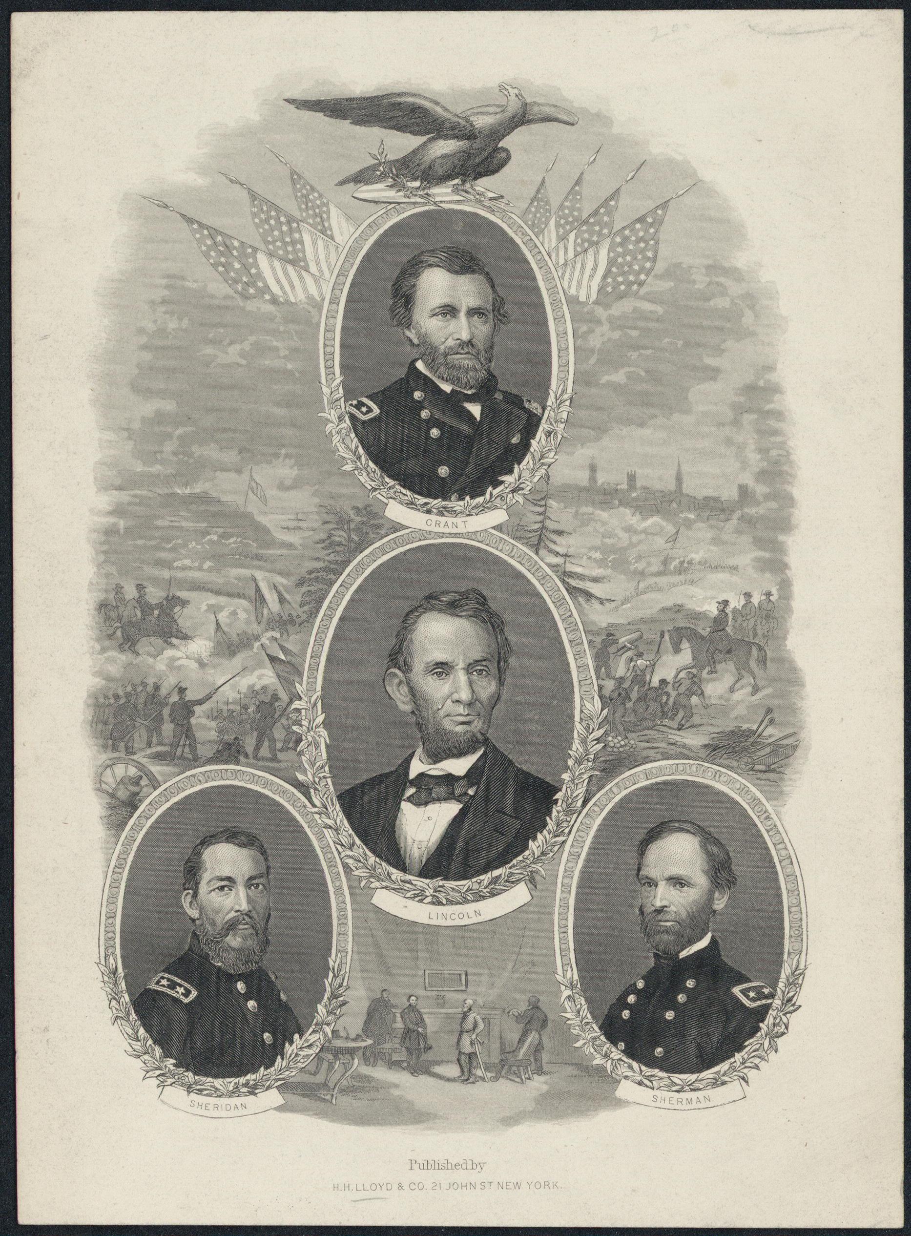 Portrait of Grant, Lincoln, Sheridan, Sherman.